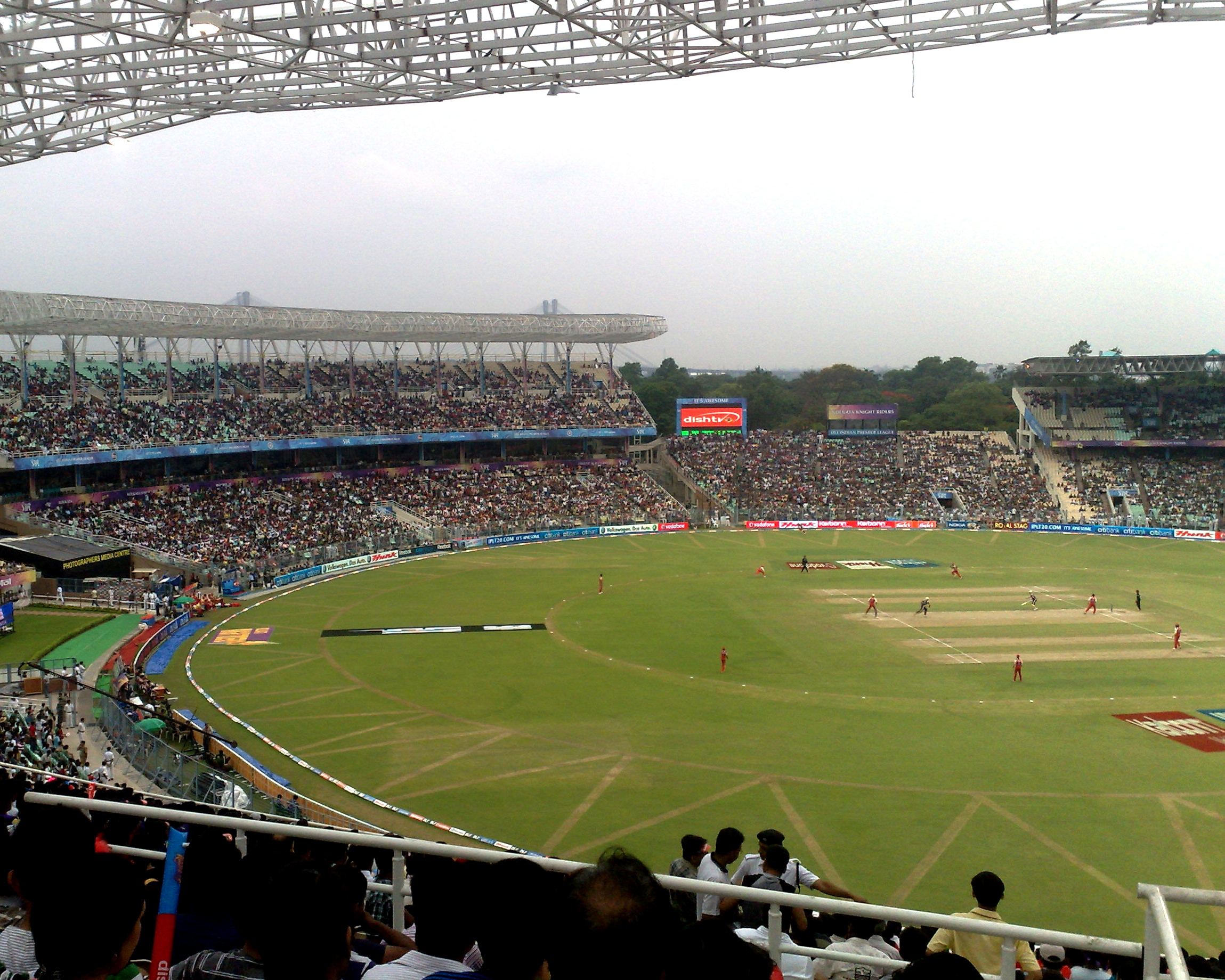 Eden Gardens cricket ground in Kolkata, India during the 2011 Indian Premier League